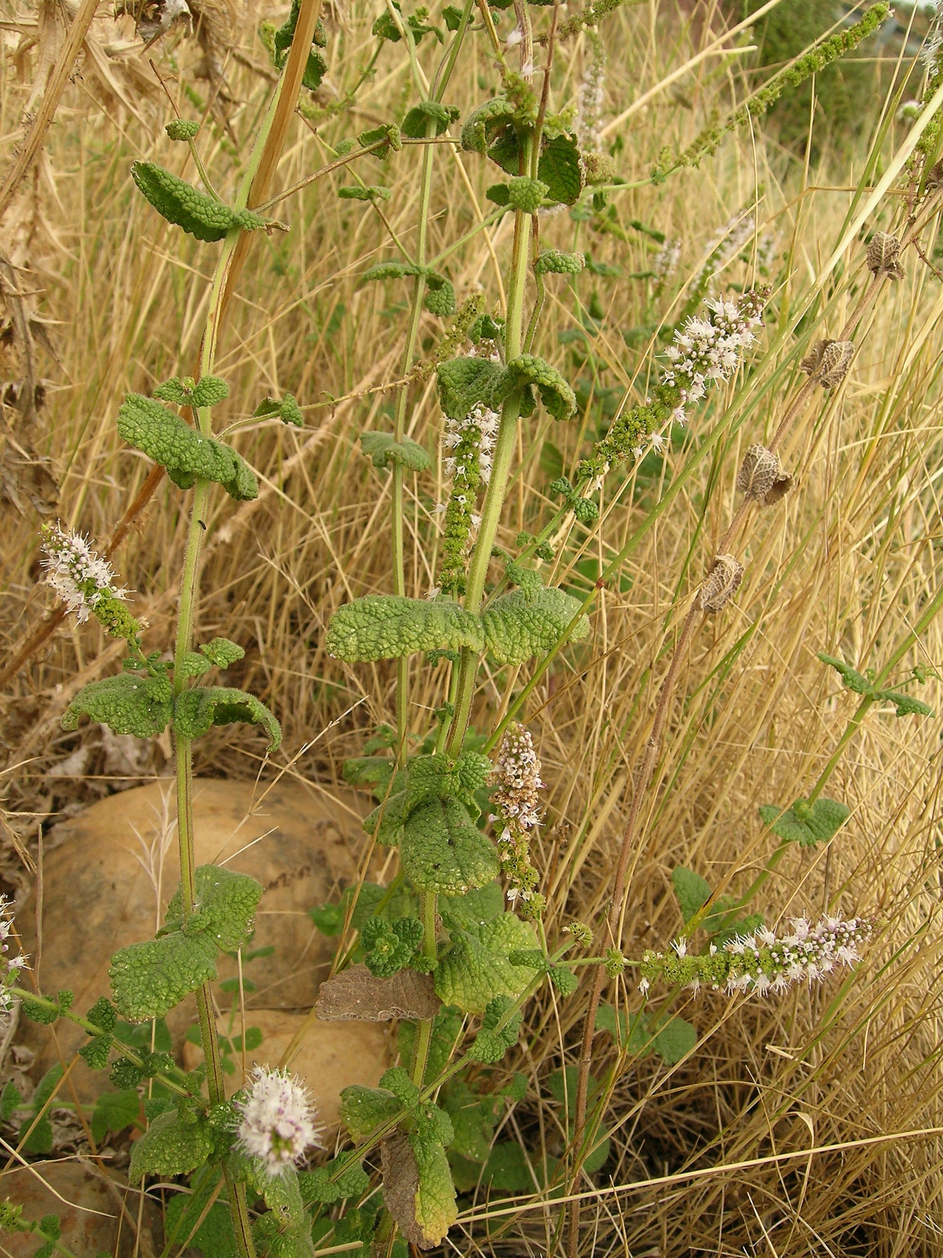 Mentha suaveolens